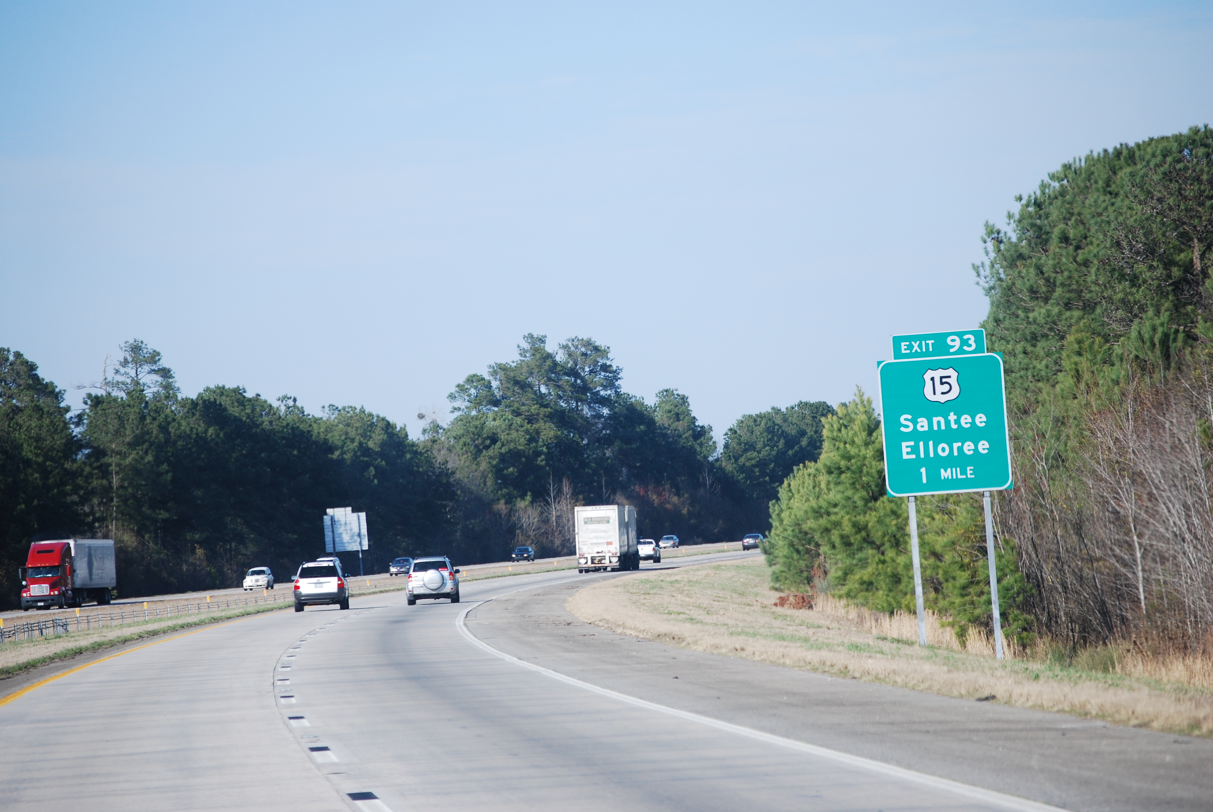 Sign for Exit 93/US 15 on Interstate 95 in South Carolina